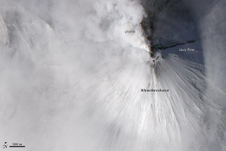 The eruption of Klyuchevskaya Volcano is ongoing. The Kamchatkan Volcanic Eruption Response Team (KVERT) reported gas and steam plumes above the volcano, strombolian activity, and an active lava flow. Photographs taken on March 20th show a pair of lava fountains near the summit. This natural-color satellite image shows Klyuchevskaya on March 19, 2010. The volcanic plume, low-lying clouds, and snow are all white, while a lava flow on the shadowed (northern) flank of the mountain is nearly black. The image was acquired by the Advanced Land Imager (ALI) aboard NASA’s Earth Observing-1 (EO-1) satellite.